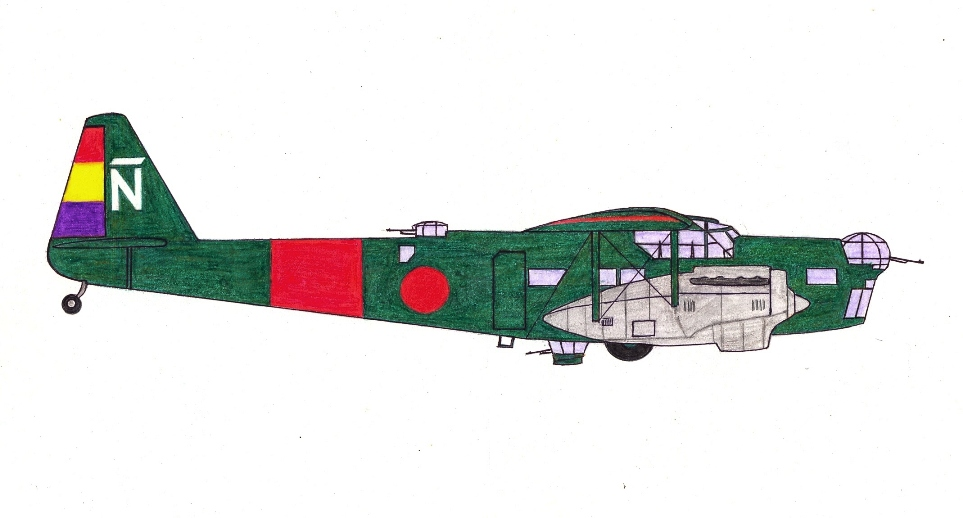 The Spanish Republican Air Force serial number 'Ñ' Potez 540 plane that was shot over the Sierra de Gúdar range of the Sistema Ibérico near Valdelinares and whose crash inspired André Malraux to make his L'espoir movie